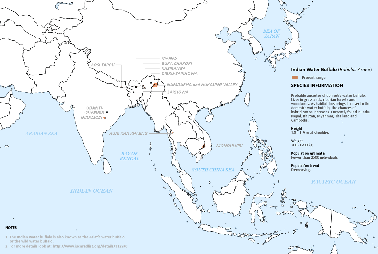 Range map of Asiatic water buffalo.